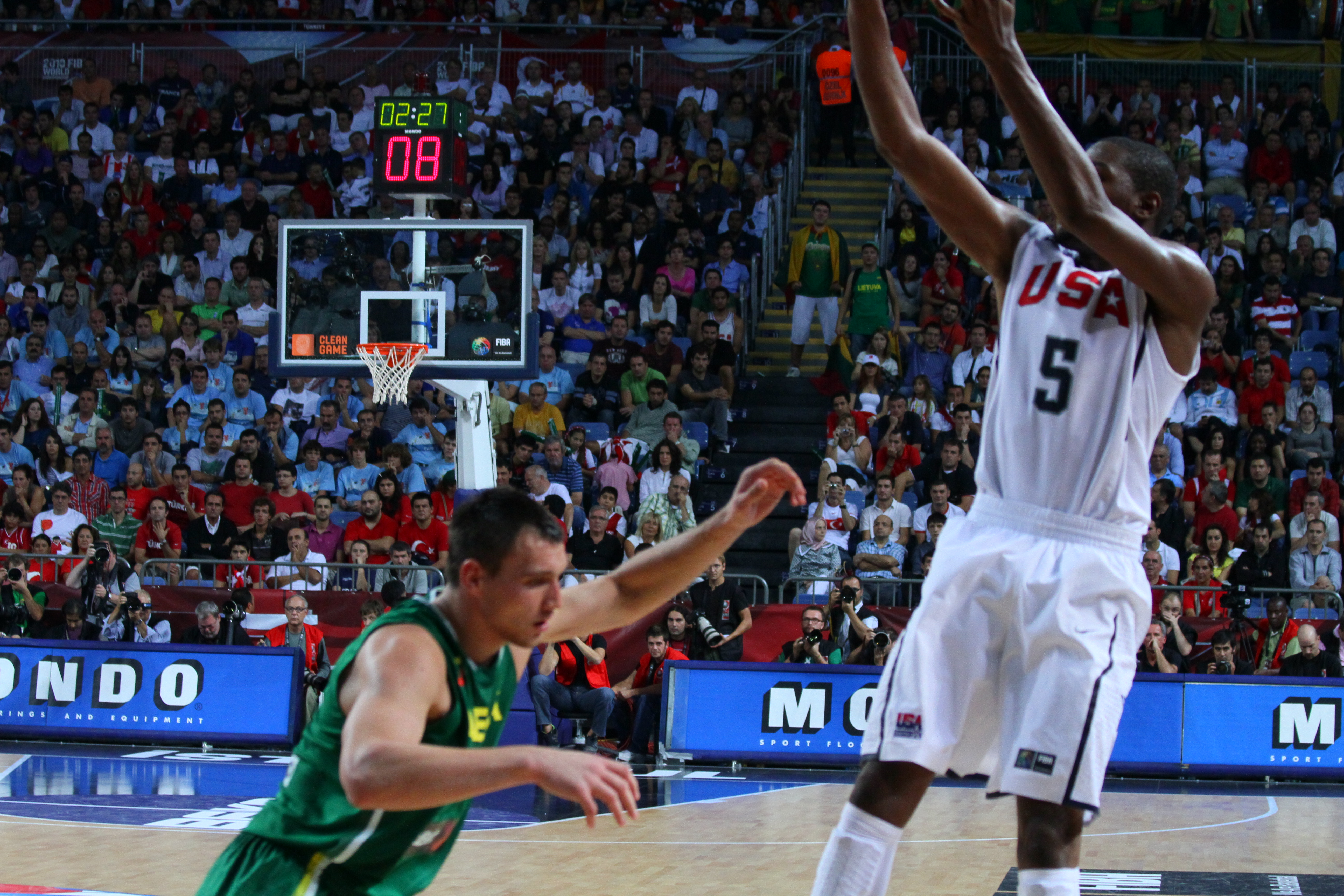 Jonas Mačiulis fails to guard Kevin Durant.